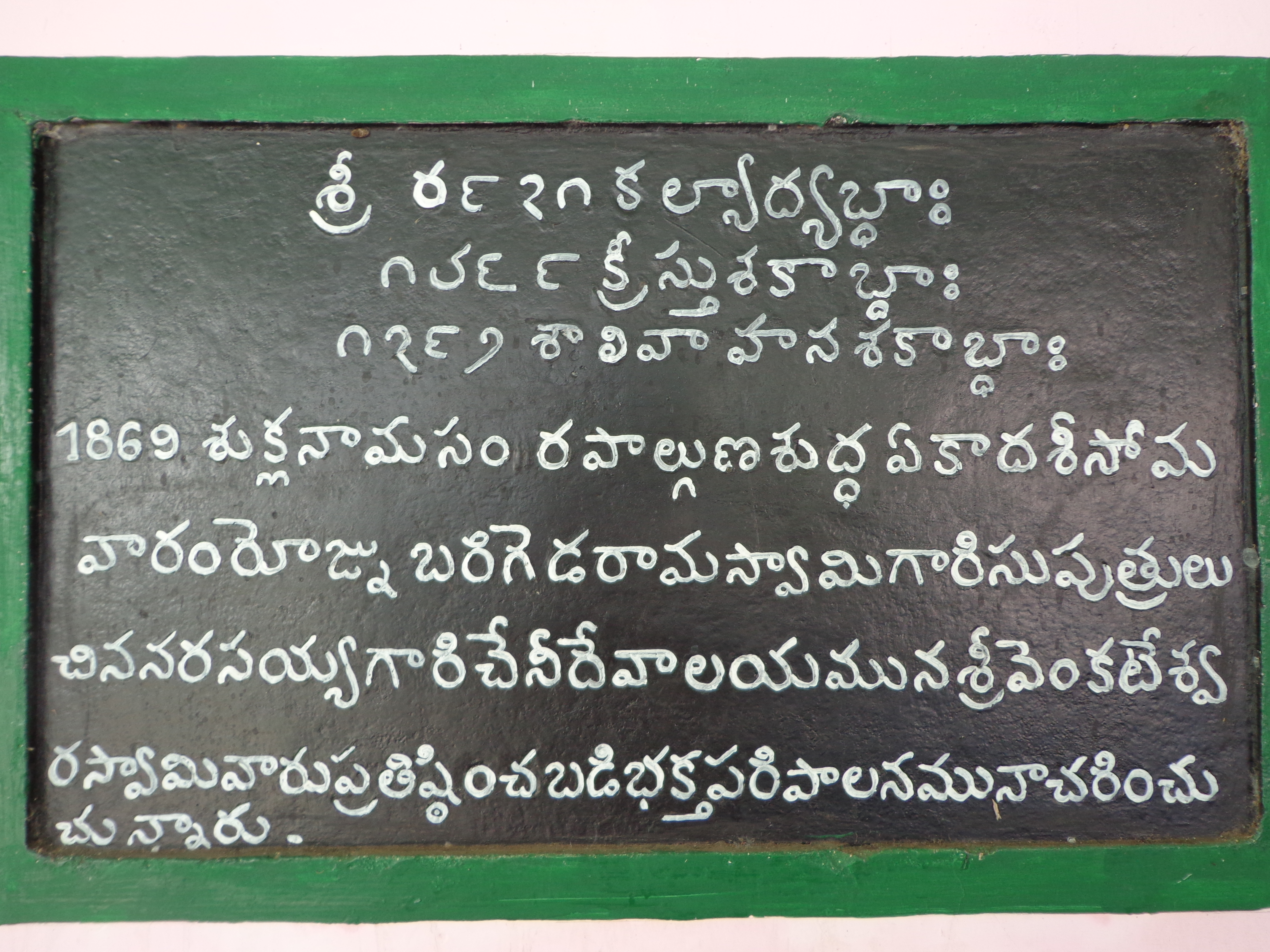 This is an inscription on a stone plate of Sri Venkateswara Swamyvari Temple in Balijipeta constructed in 1869.Rajasekhar1961 (talk) 13:54, 17 October 2013 (UTC)